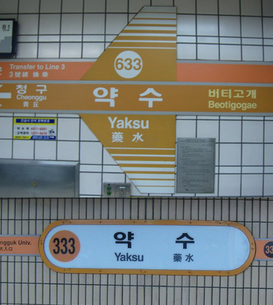 Yaksu Station